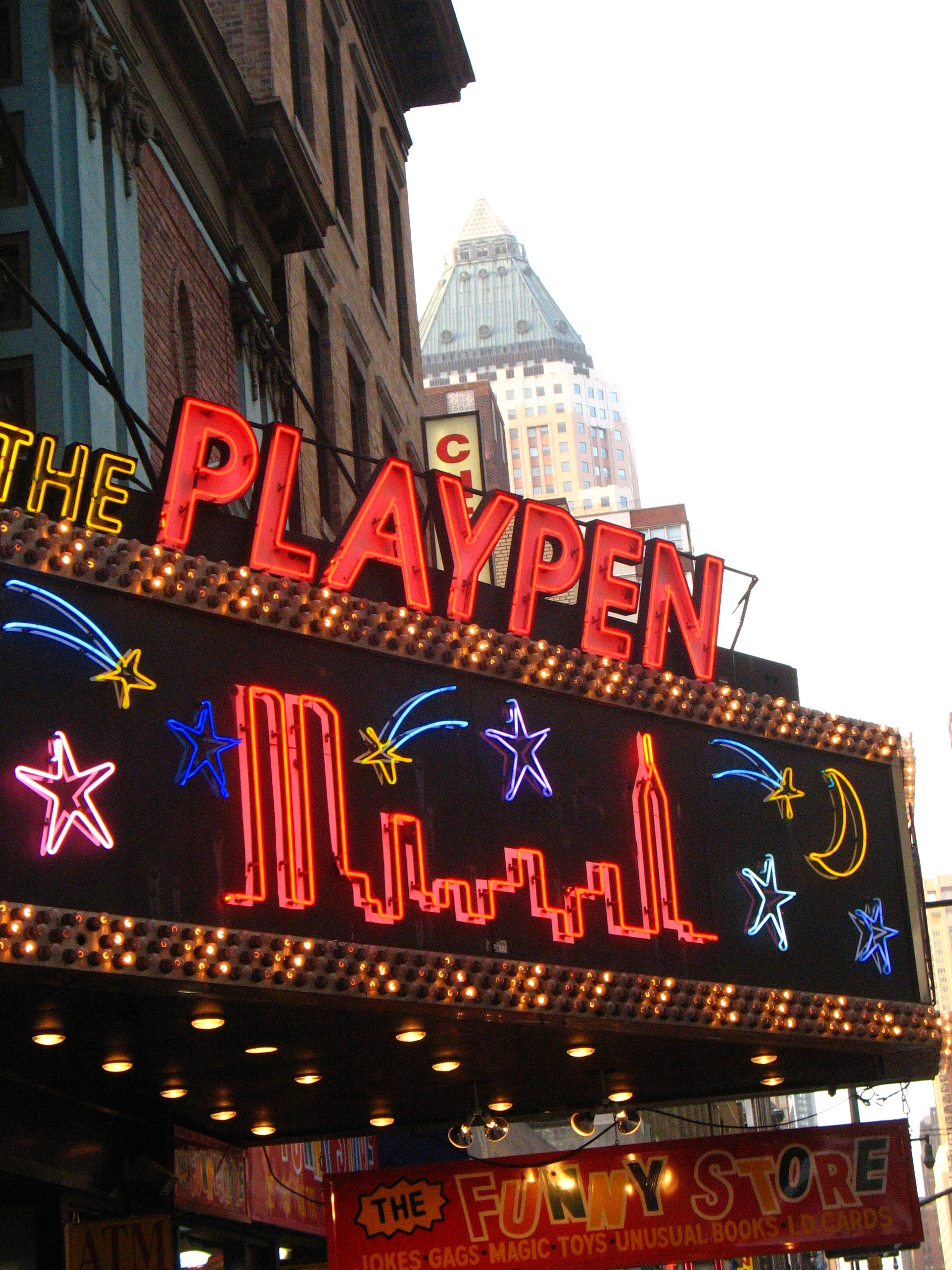 Play Pen on Eighth Avenue